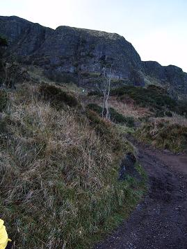 seamus kane